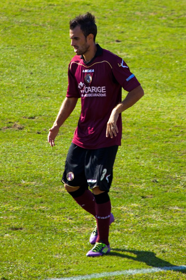 Giuseppe Gemiti Livorno's player 2012/2013